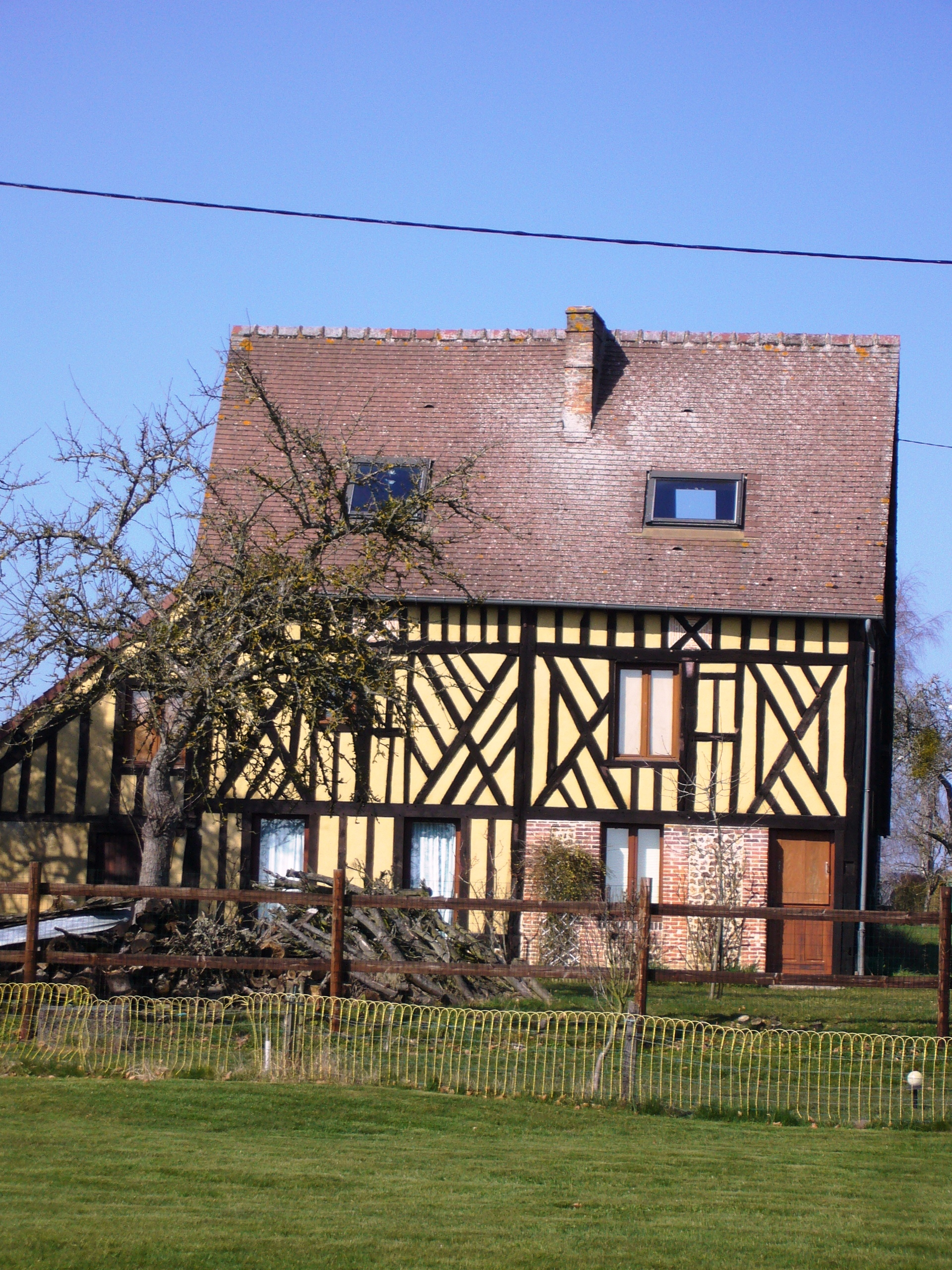 Old half-timbered house at Glos-la-Ferrière, Normandy